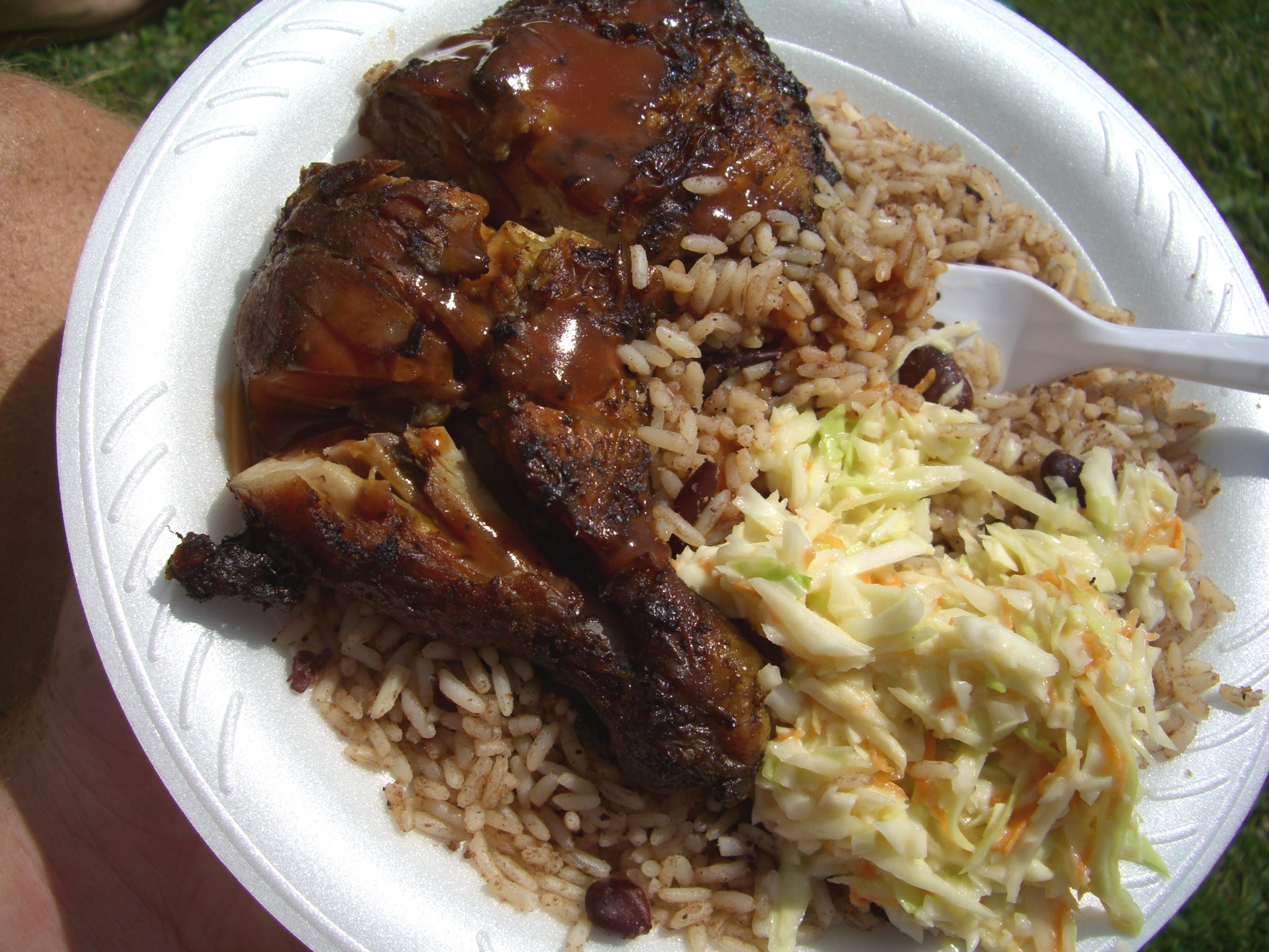 Jerk Chicken with rice and peas, served with coleslaw.